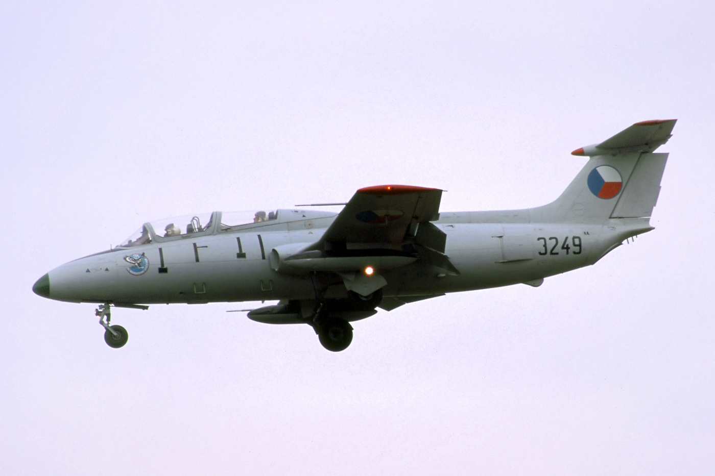 Caslav, 17 August 1994. This Delfin was sold to an American. In 2011 it was flown to Oshkosh as N3249X, still in the same colours.